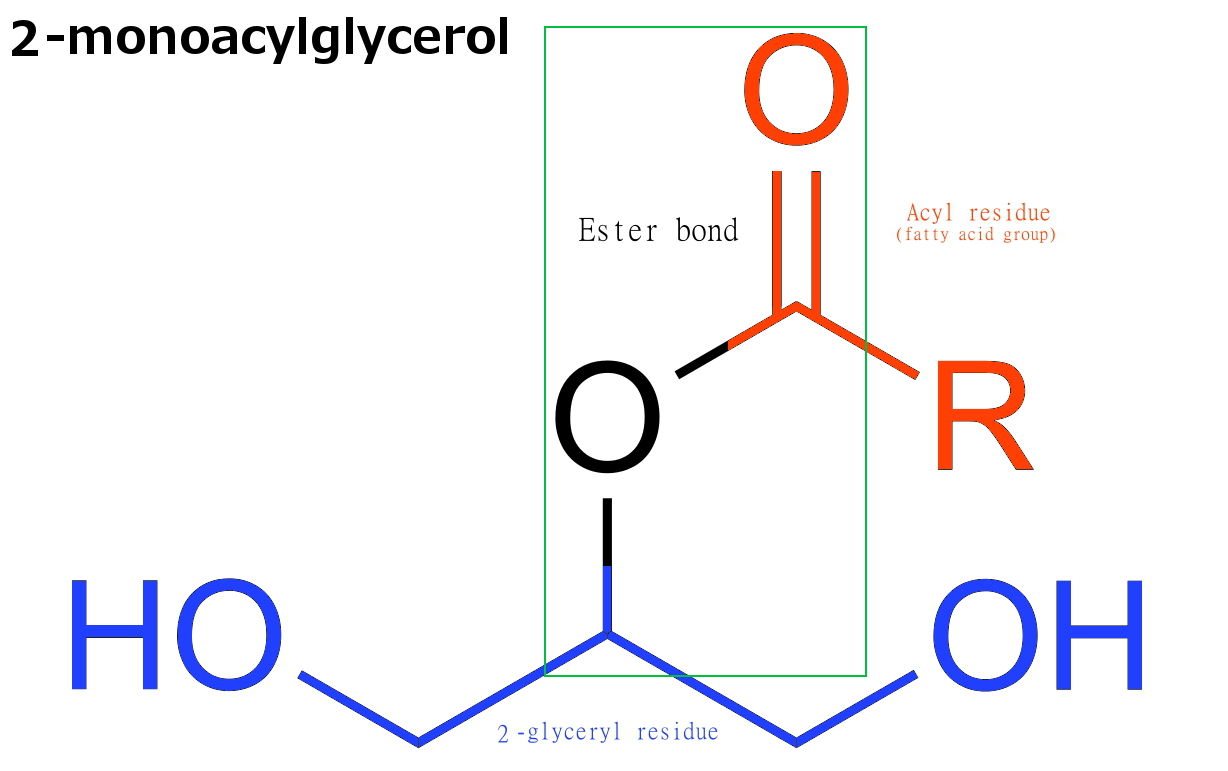 2-monoacylglycerol molecular structure. Annotated and colour-coded version of File:2-monoacylglycerol.svg